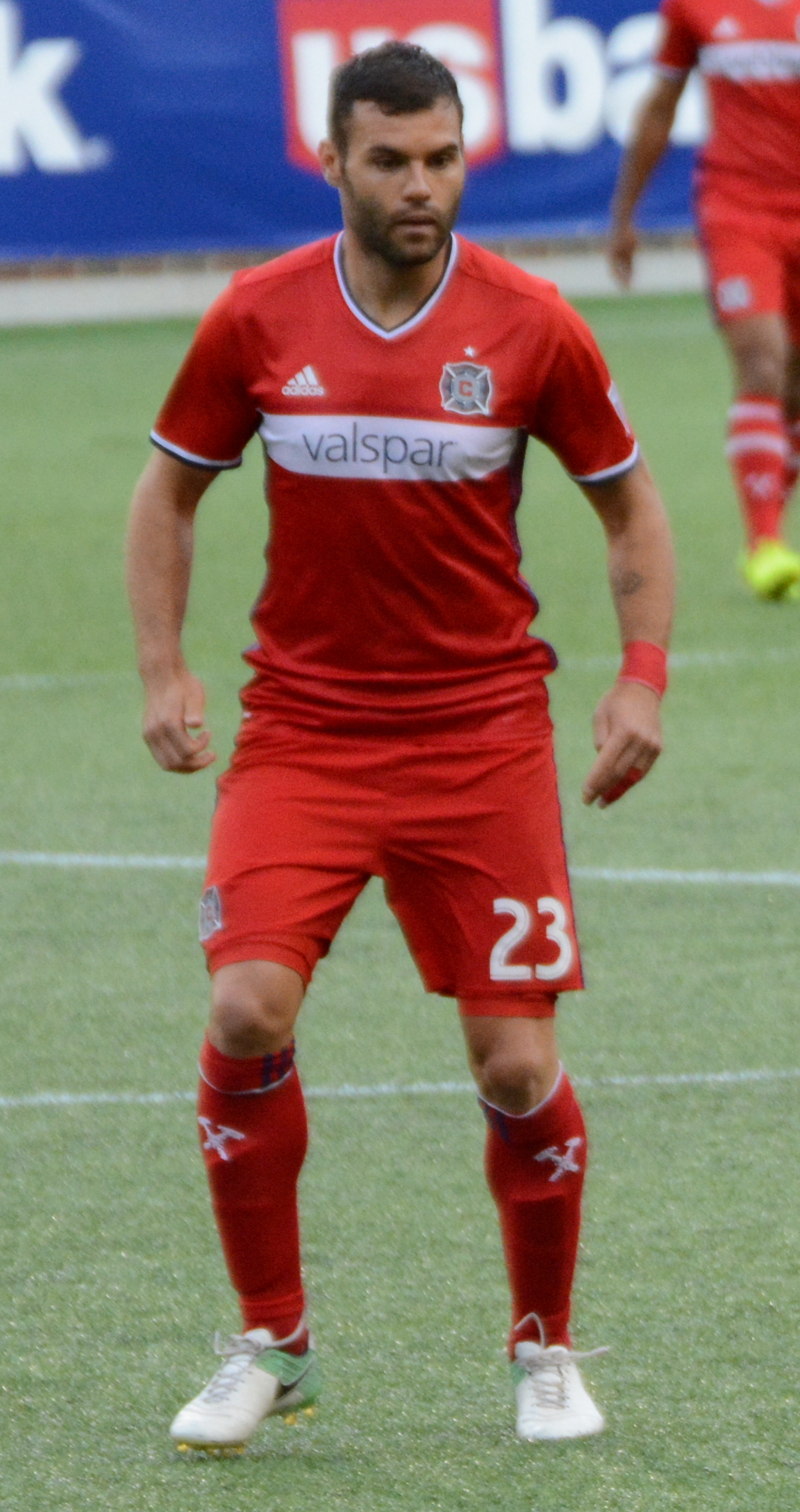 Taken at a U.S. Open Cup match between FC Cincinnati and Chicago Fire SC at Nippert Stadium in Cincinnati, Ohio on June 28, 2017.